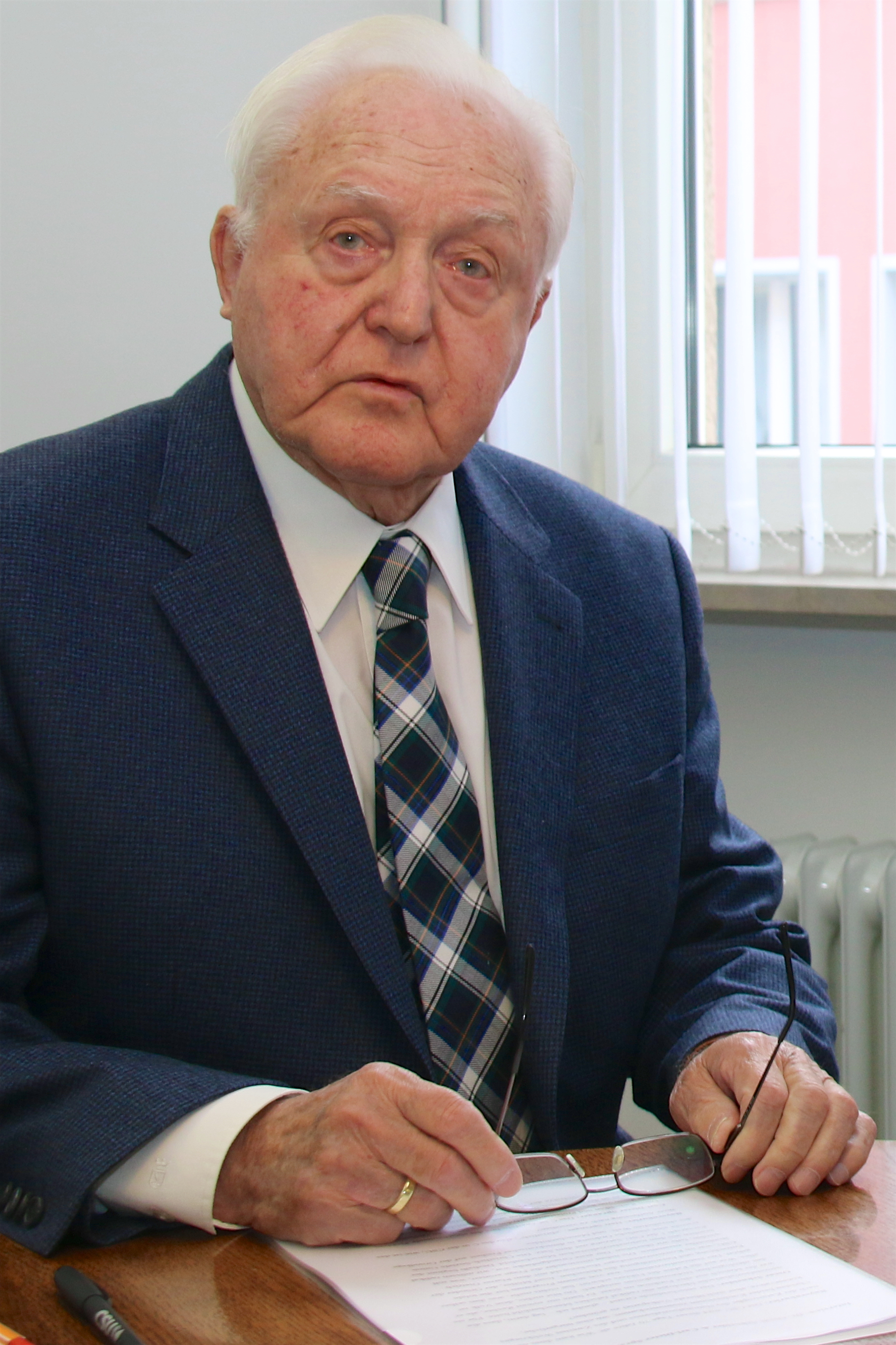 Former federal mister and honorary citizen of Nuremberg Dr. Oscar Schneider